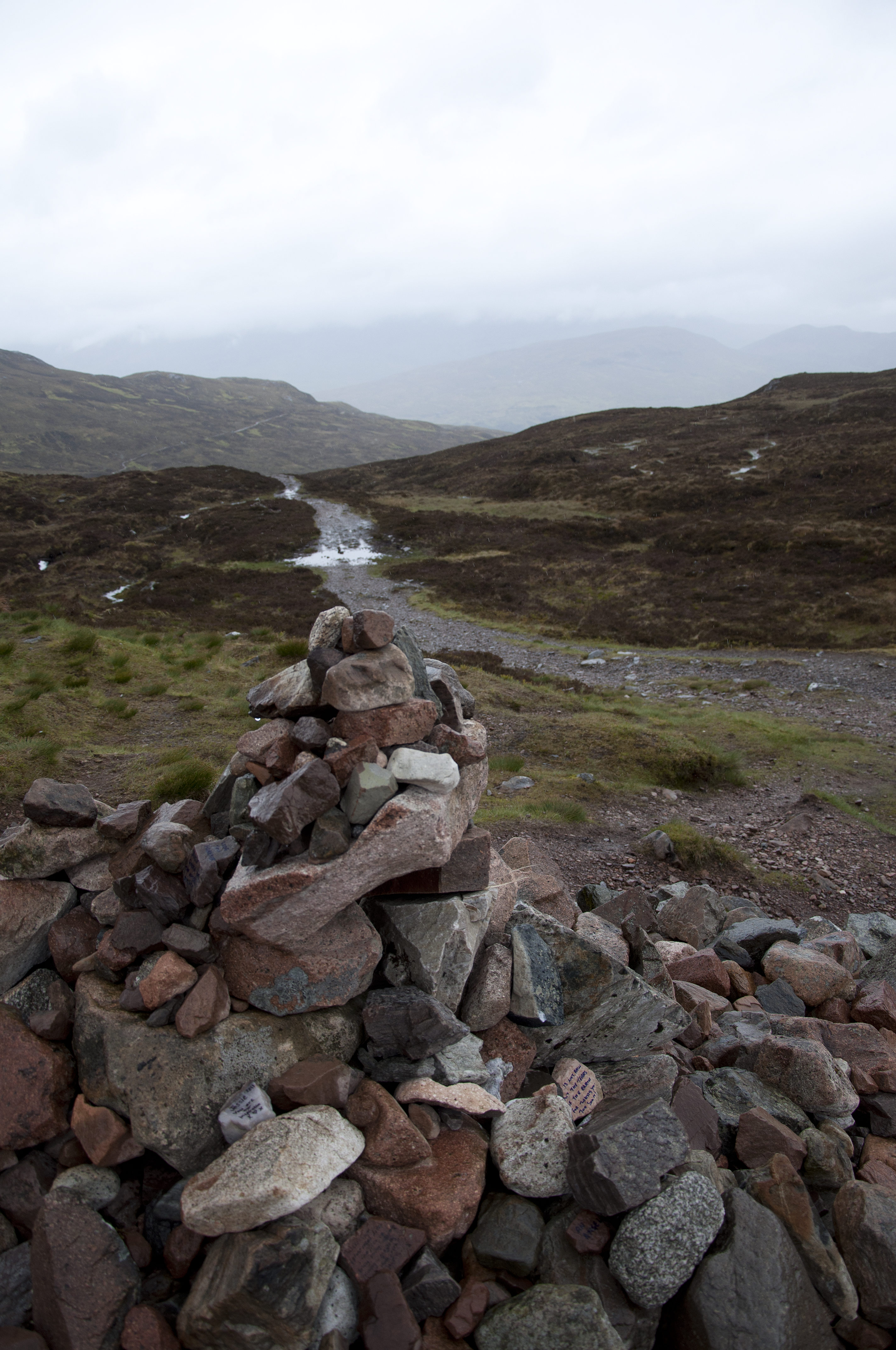 Cairn on top of Devil's Staircase, West Highland Way, Scotland